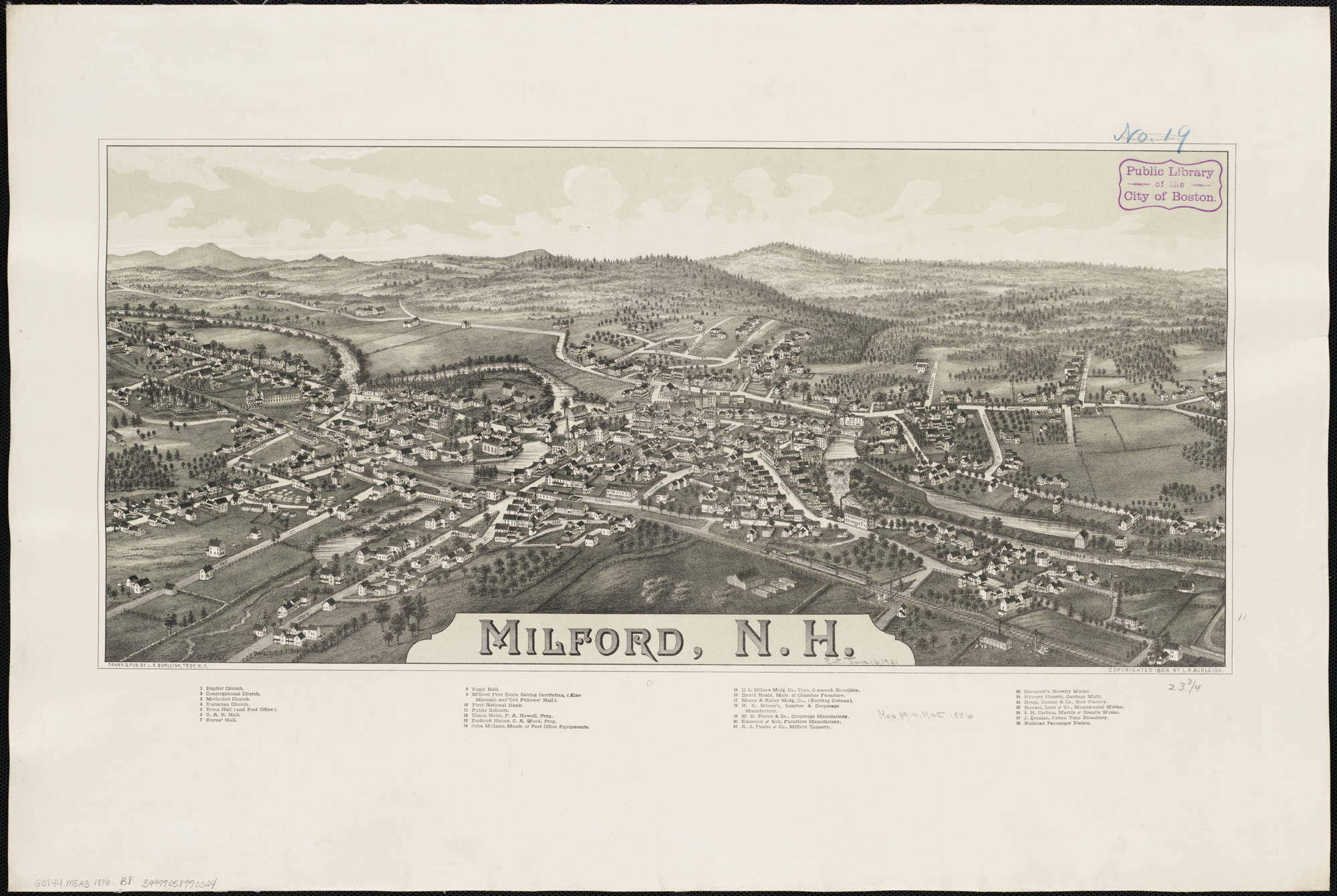 Zoom into this map at . Author: Burleigh, L. R. Publisher: L.R. Burleigh Date: c1886. Location: Milford (N.H.) Scale: Not drawn to scale. Call Number: G3744.M5A3 1886.B8